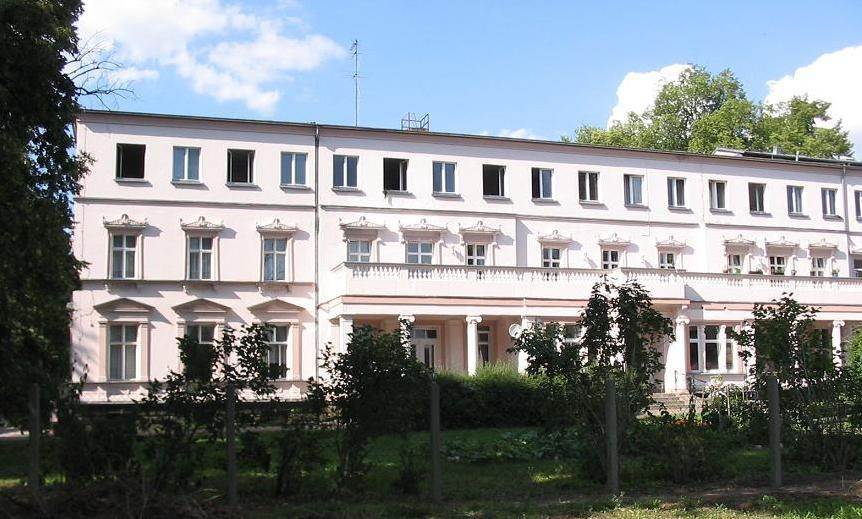 Siethen, part of Ludwigsfelde in the Landkreis (rural district) Teltow-Fläming, Brandenburg. Palace.